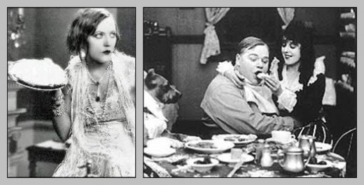 Stills fron A Noise from the Deep (1913).